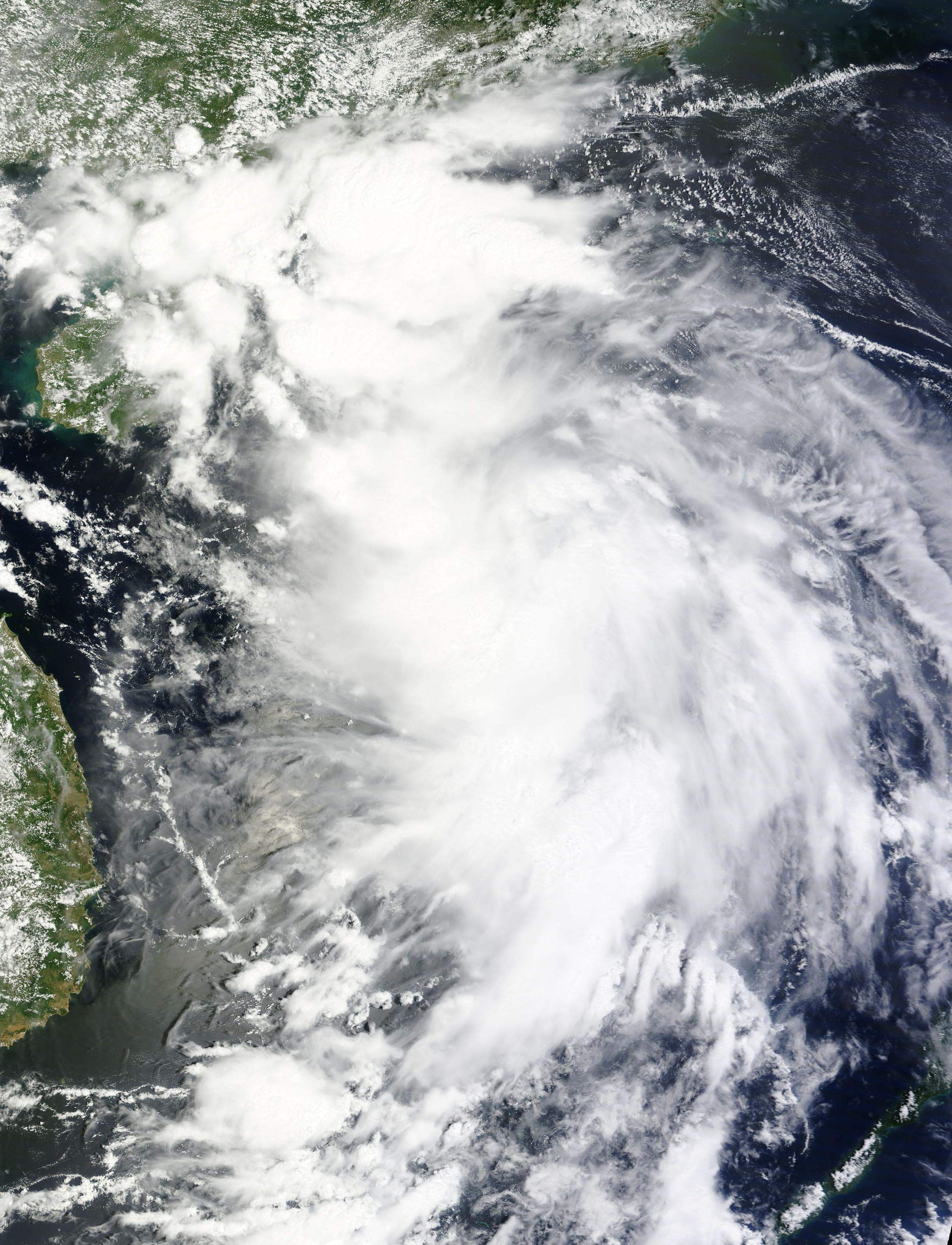 JMA Tropical Depression 20 in the South China Sea on August 27, 2014